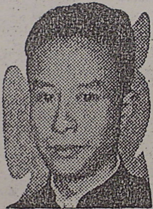 Yin Ju-keng